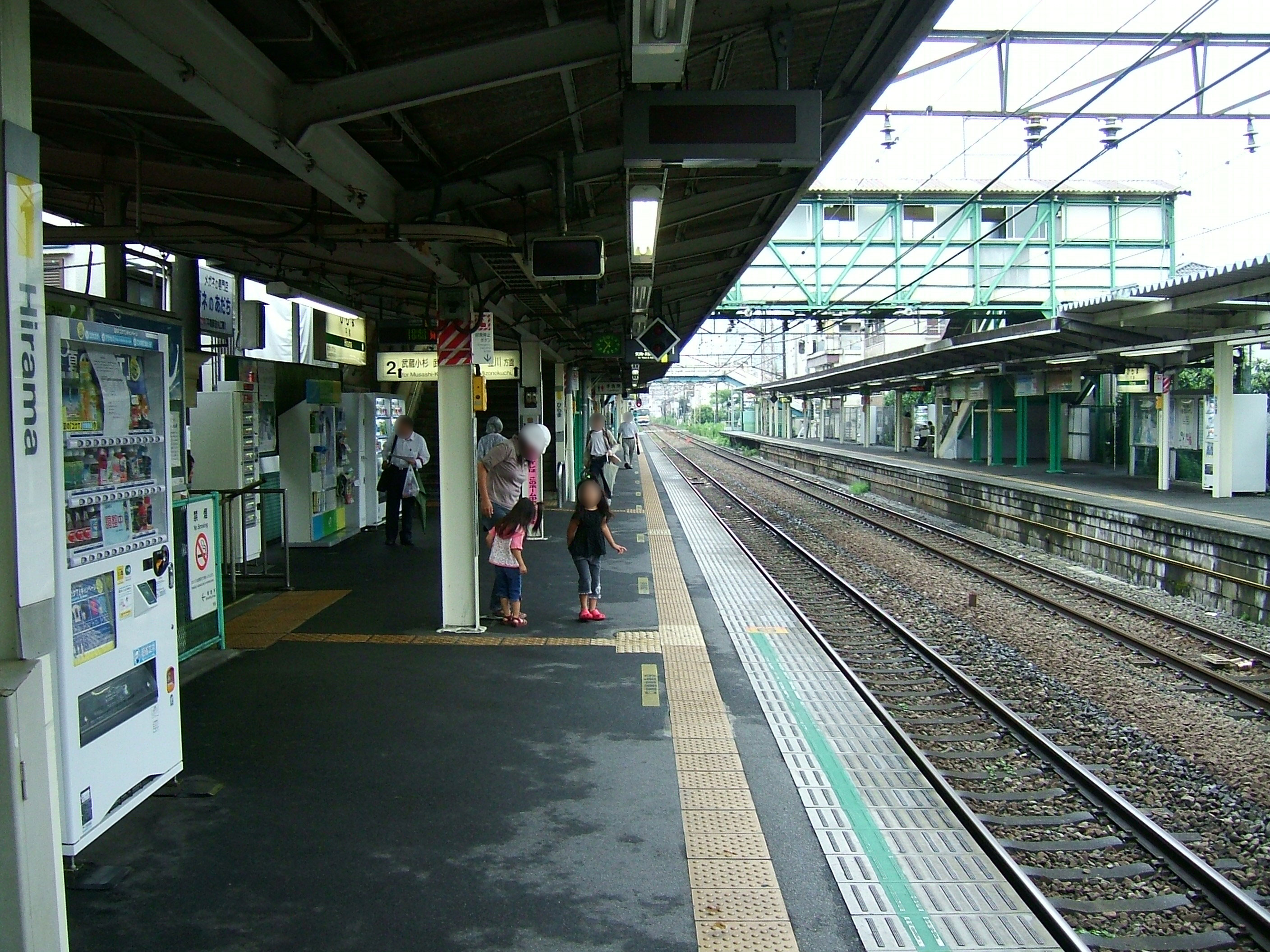 Hirama Station platform (East Japan Railway Nambu Line)